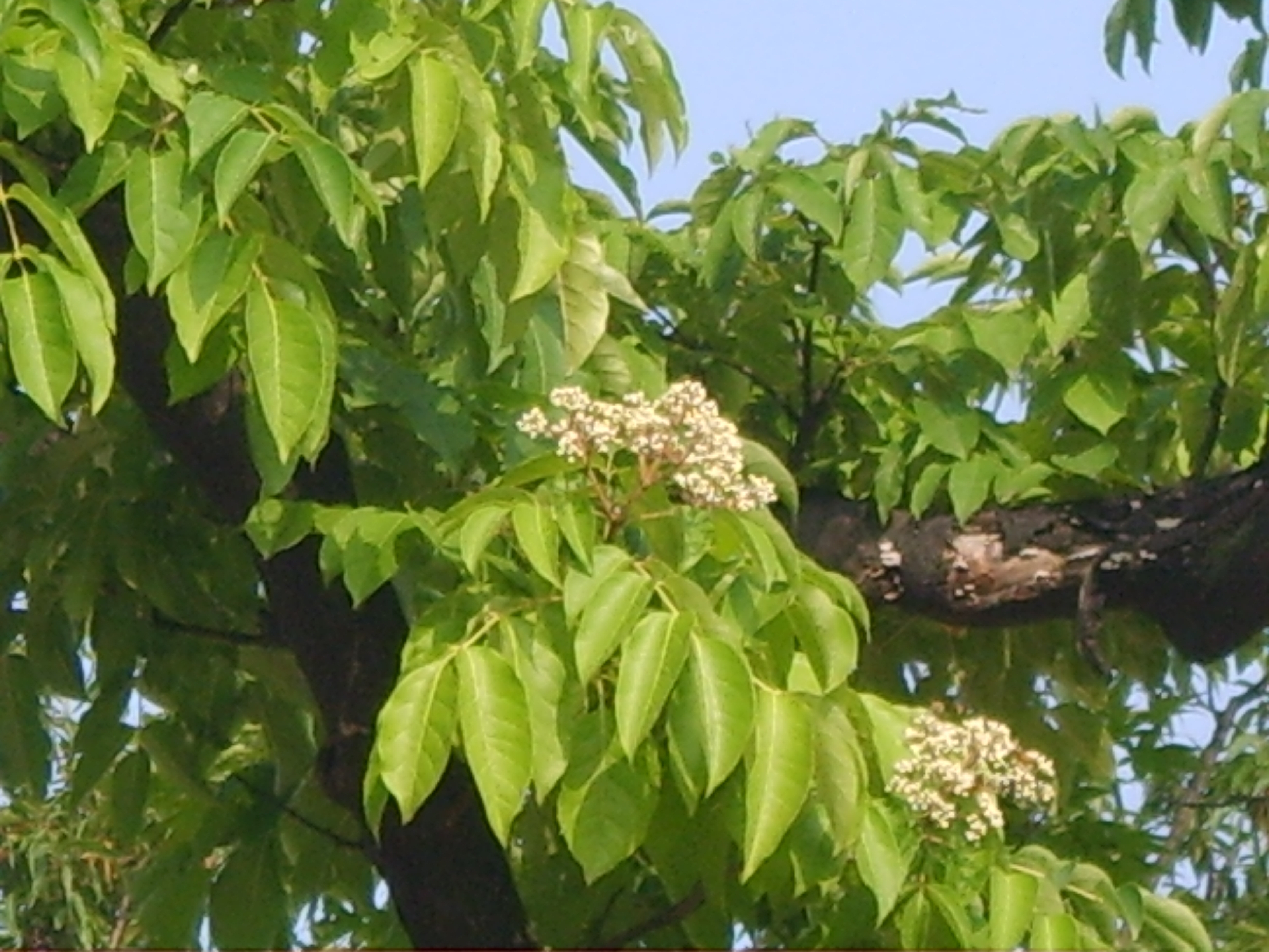 Tetradium daniellii